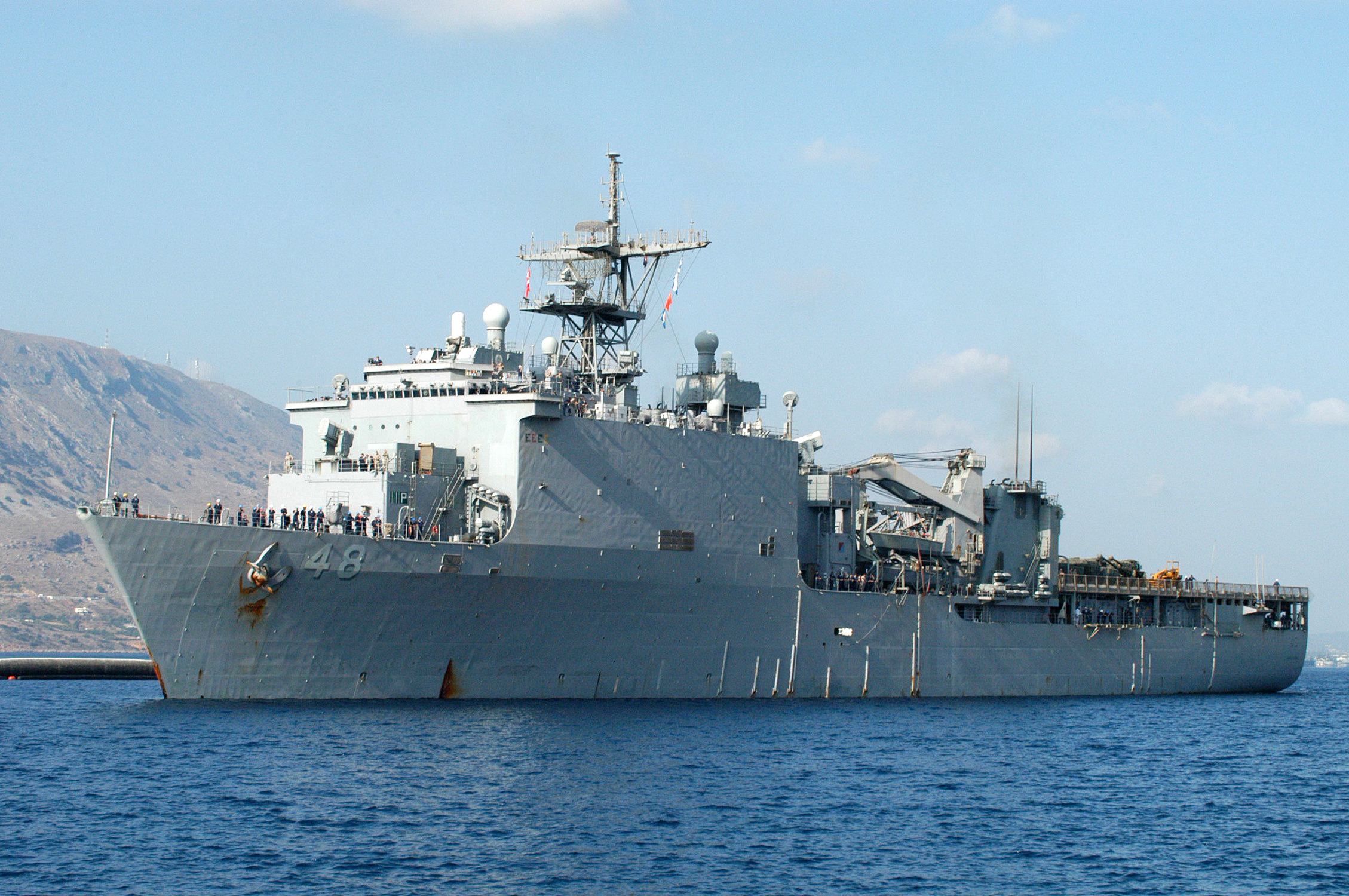 Souda Bay, Crete, Greece (Sep. 1, 2005) - The dock landing ship USS Ashland (LSD 48) and embarked elements of 26th Marine Expeditionary Unit (MEU), arrive in Souda Harbor for a routine port visit on Greece's largest island. Ashland is assigned to the Kearsarge Expeditionary Strike Group and has been on a regular deployment from its homeport of Little Creek, Va., since March. U.S. Navy photo by Paul Farley (RELEASED)